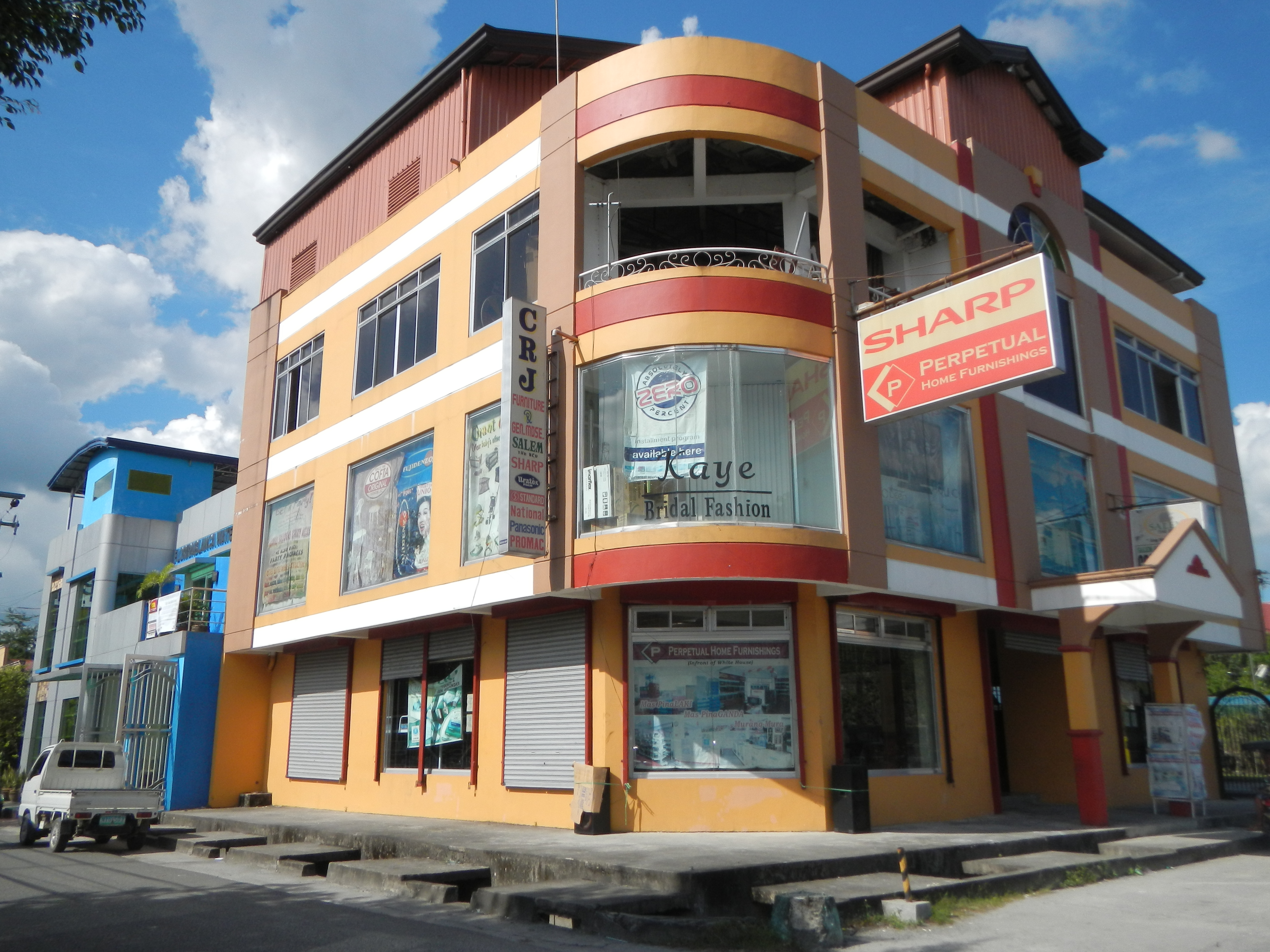 Floridablanca, Pampanga [1][2]